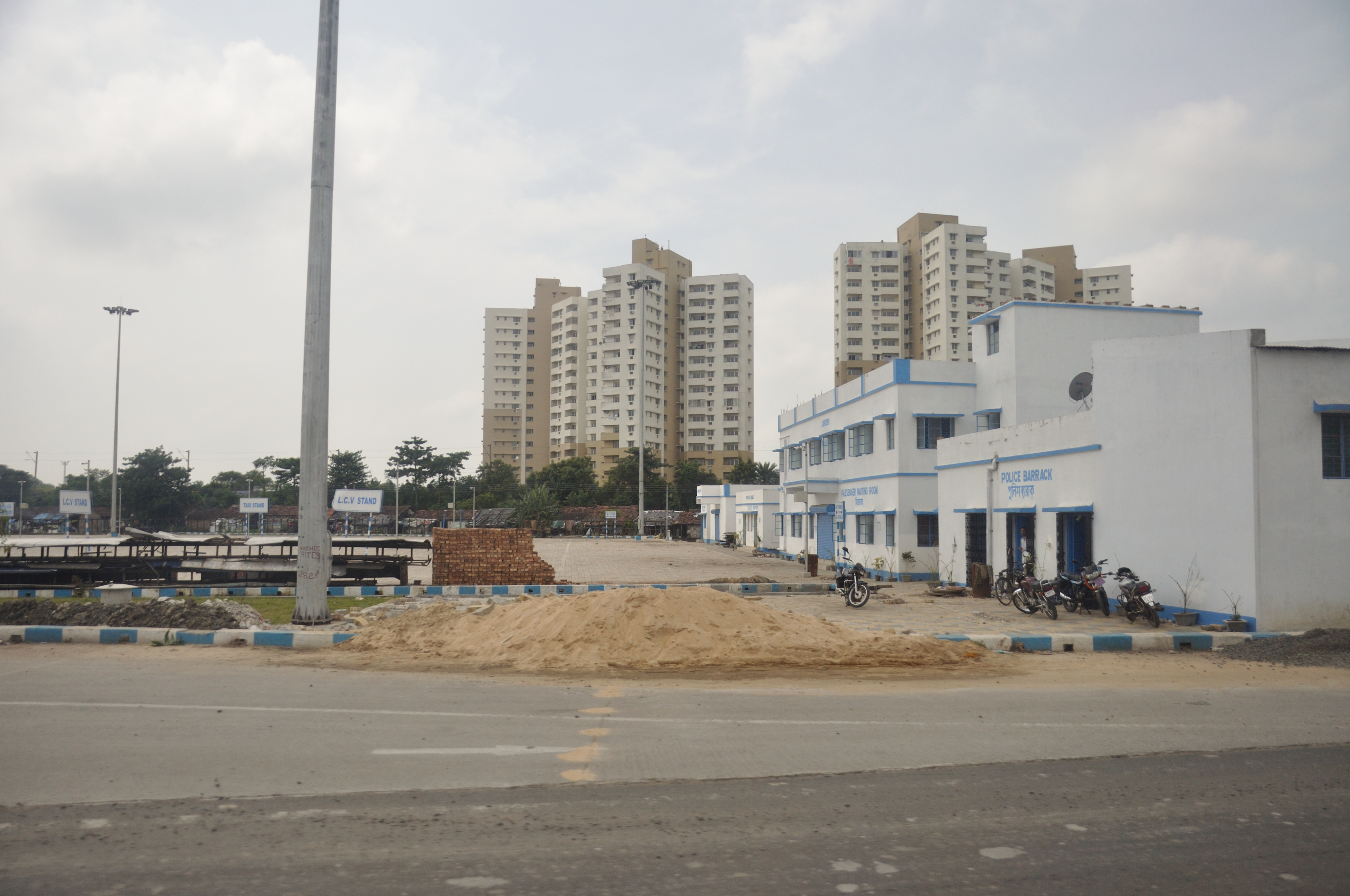 Photographed in West Bengal.